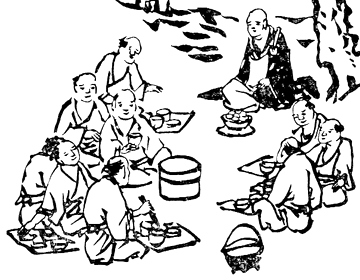 "a char which appeared as a Buddhist monk" (イハナ坊主に化たる事) from the Shōzan chomon-kishuū (想山著聞奇集, The Japanese book)